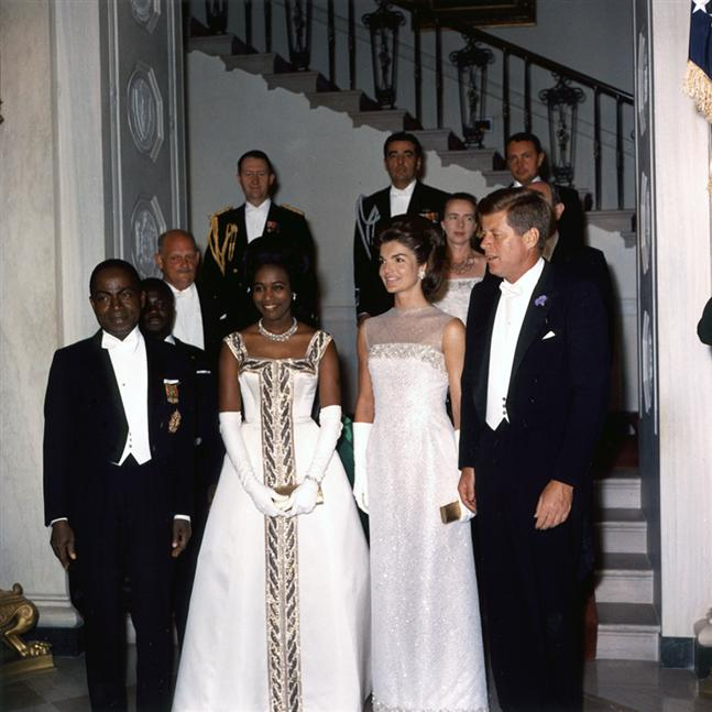 President and Mrs. Kennedy with President and Madame Houphouet-Boigny of the Ivory Coast, 22 May 1962.